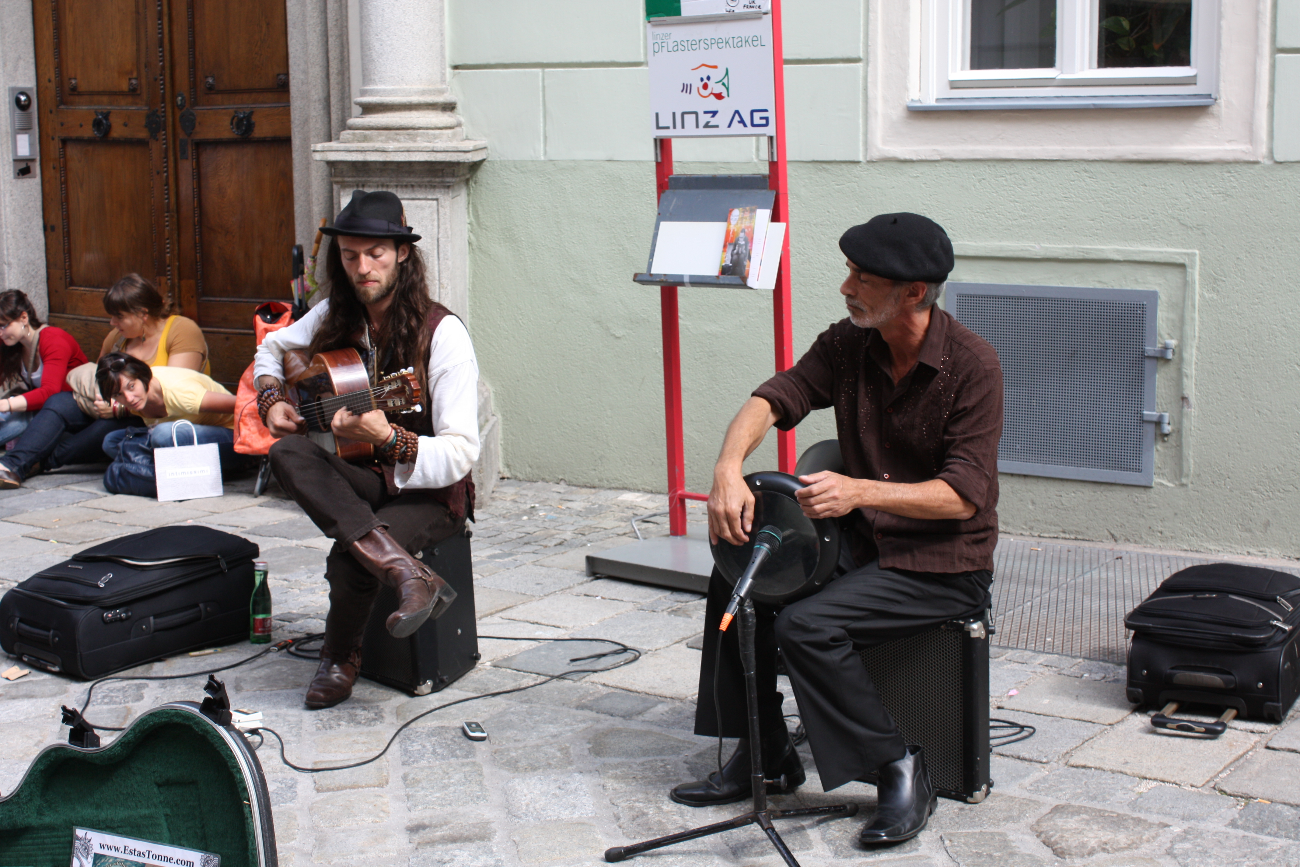 Estas Tonne and his percussionist at the 25th Pflasterspektakel in Linz, 2011